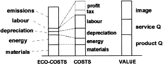 EVR__Eco-costs_costs_value__bars